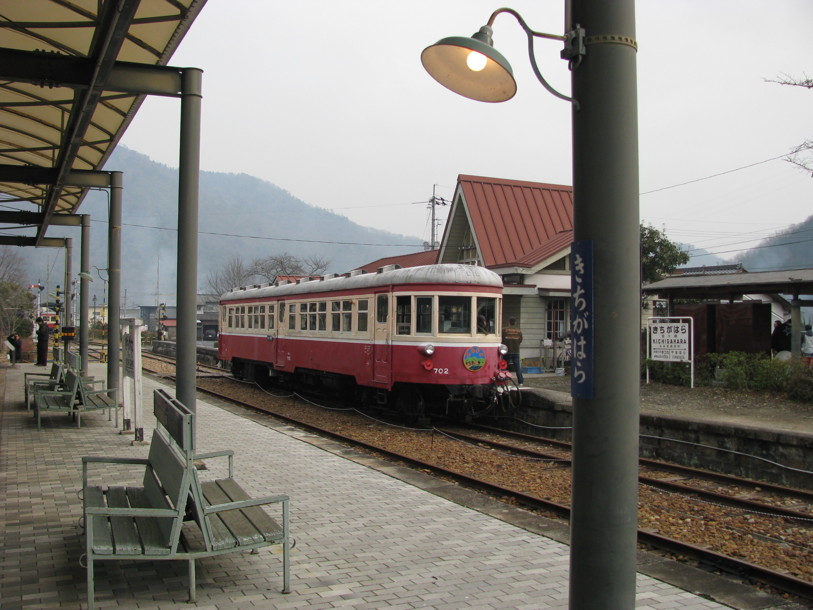 The Kichigahara Station was a station of Katakami Tetsudō (Katakami Railway). Katakami Tetsudō is a discontinued railway line. This place is Misaki, Kume District, Okayama Prefecture, Japan.